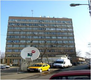 Sediu ESS